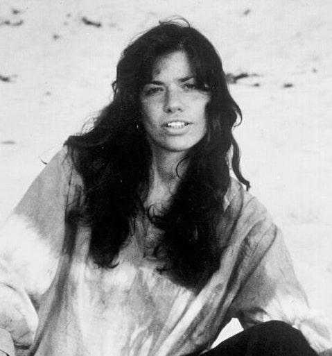 Carly Simon in 1974 press photo